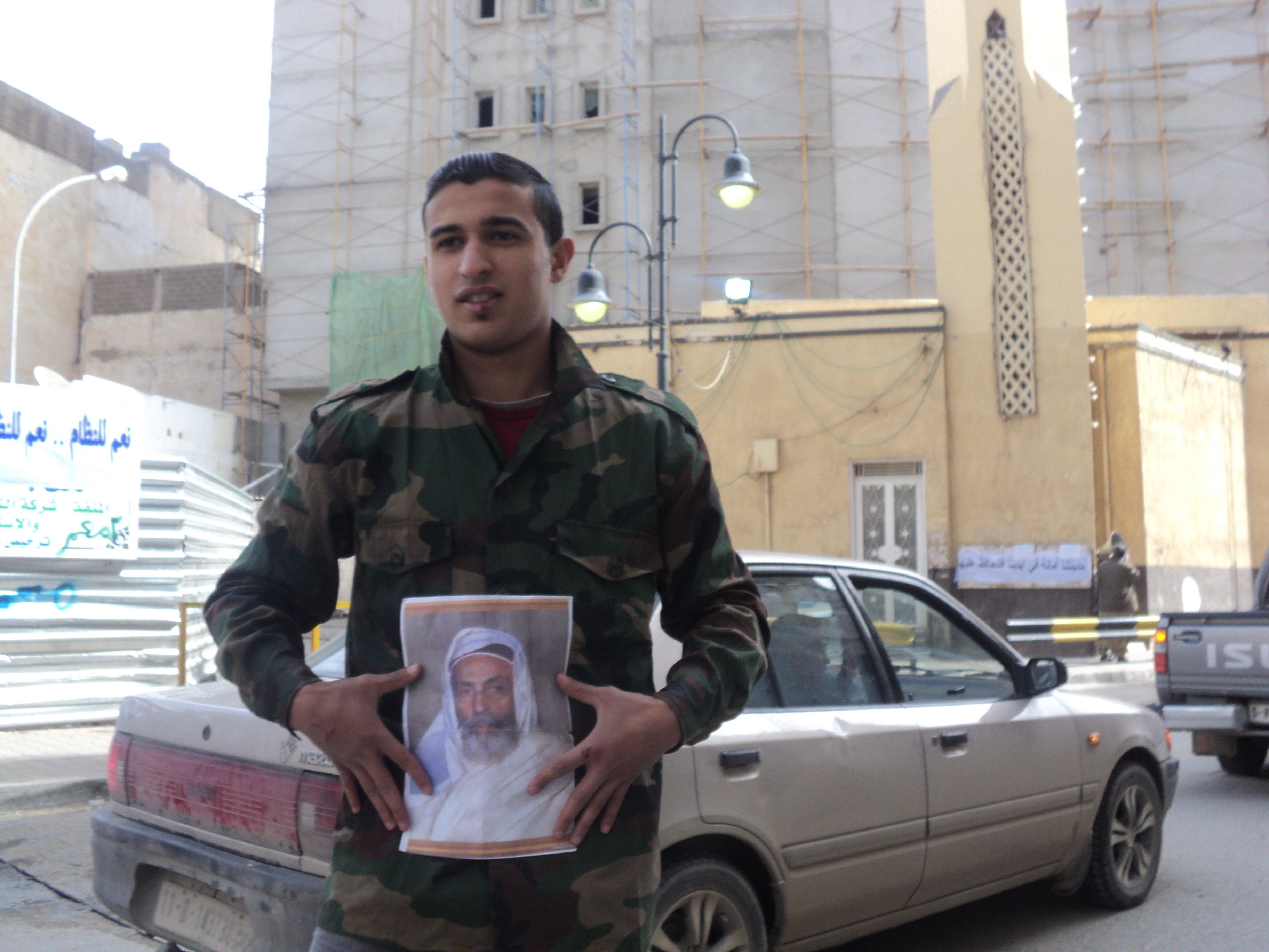 A Benghazi citizen holding King Idris's photo.